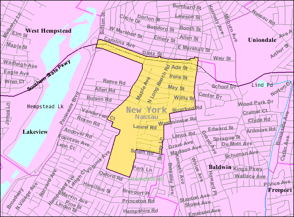 U.S. Census 2000 reference map for South Hempstead, New York